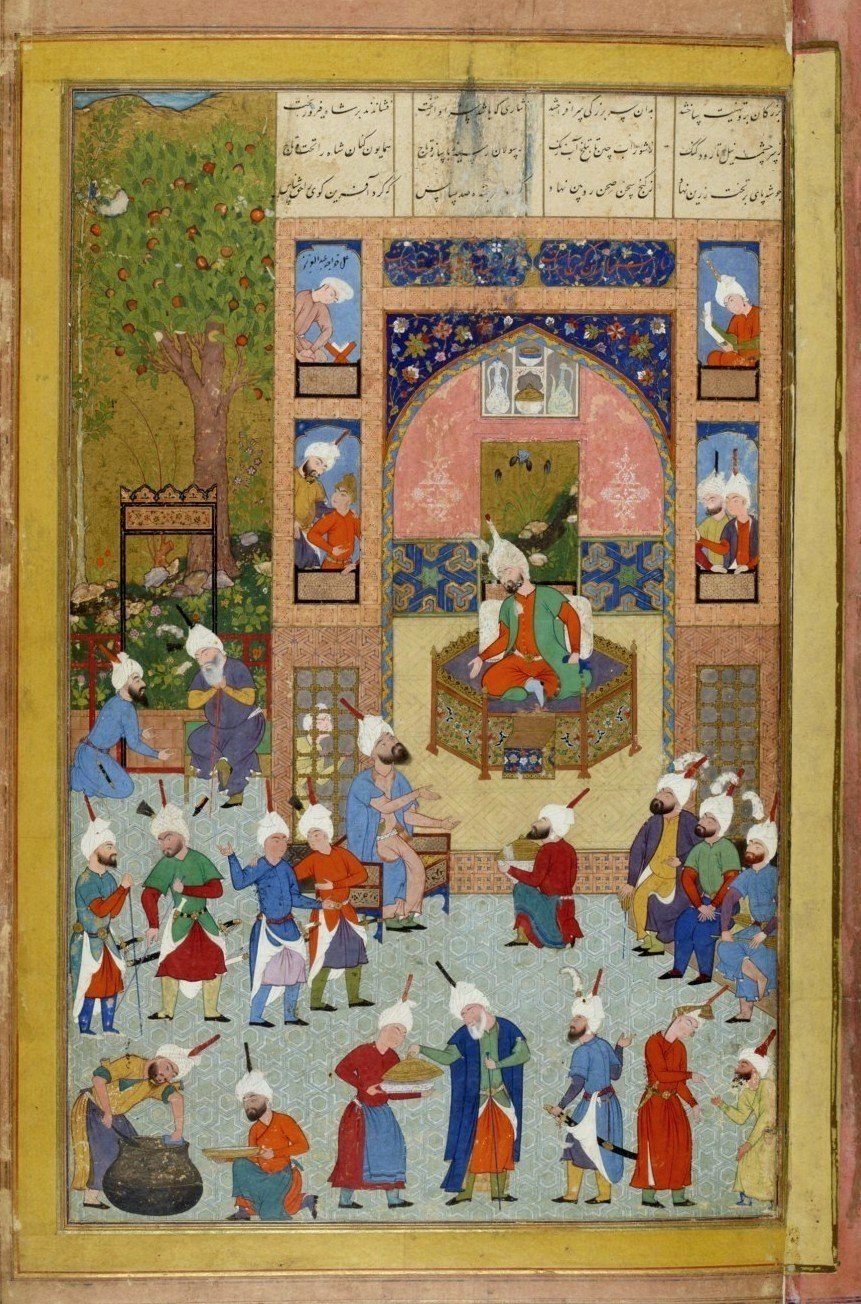 Signed Abd al-Aziz, Shah and his Court, page of Muraqqa, p.2, BNF